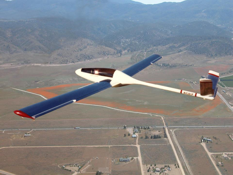 Monnett Monerai S in flight over the Antelope Valley